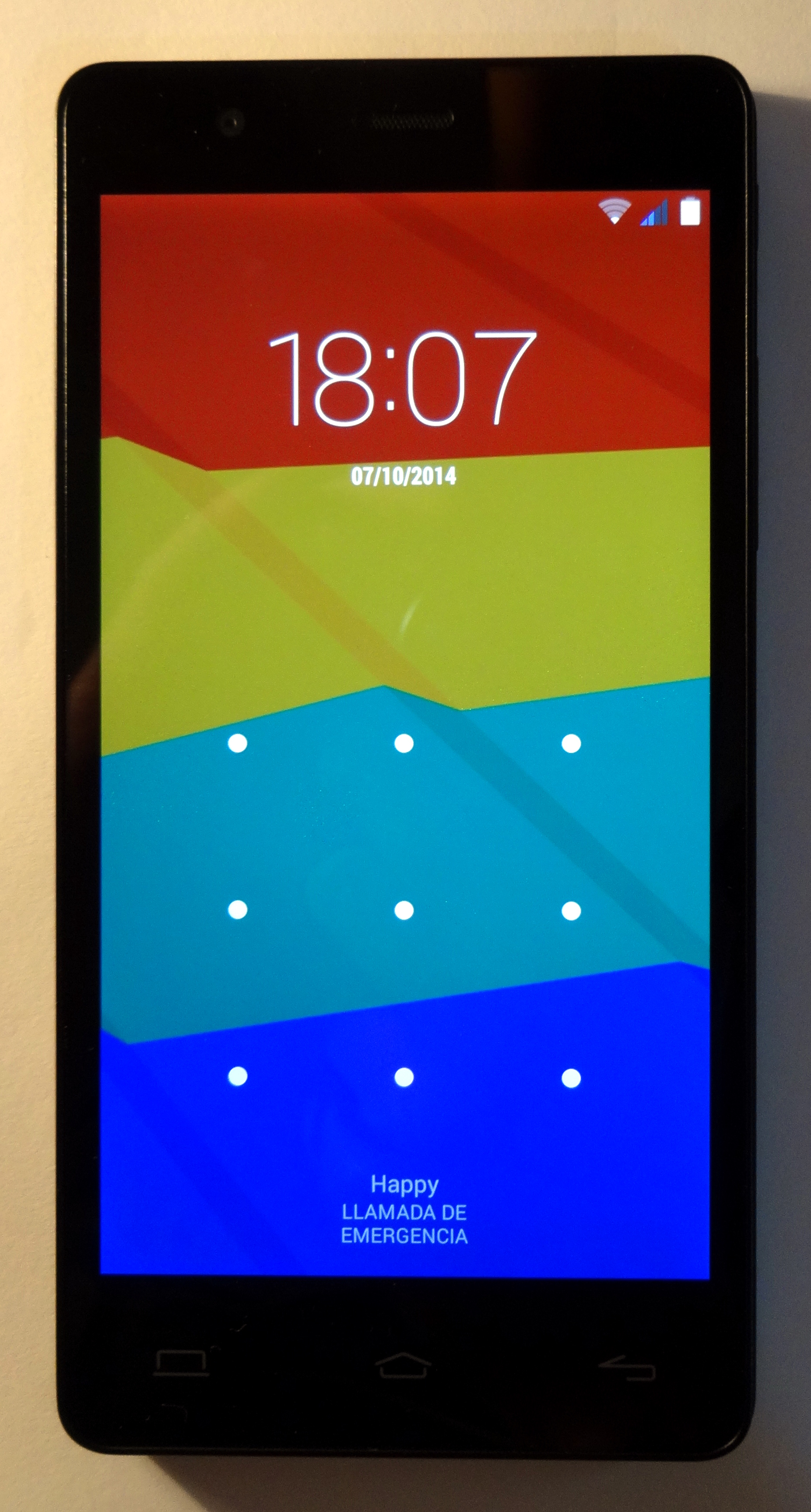 Frontal view of bq Aquaris E5 smartphone.